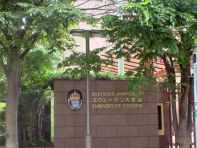 Embassy of Sweden, Akasaka, Tokyo